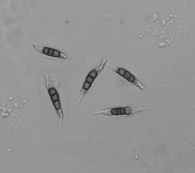 40x brightfield microscopy of Pestalotia/Pestalotiopsis spores. Note the appendages